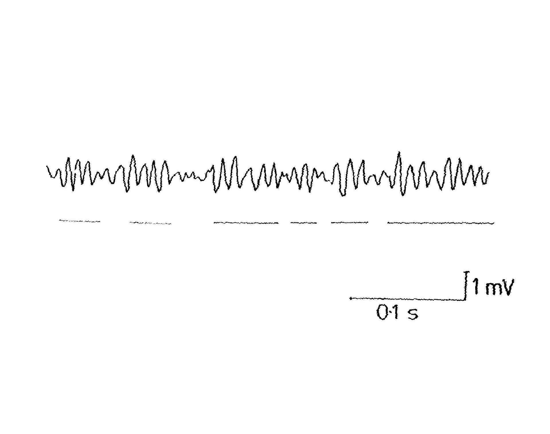 Niamh Collins